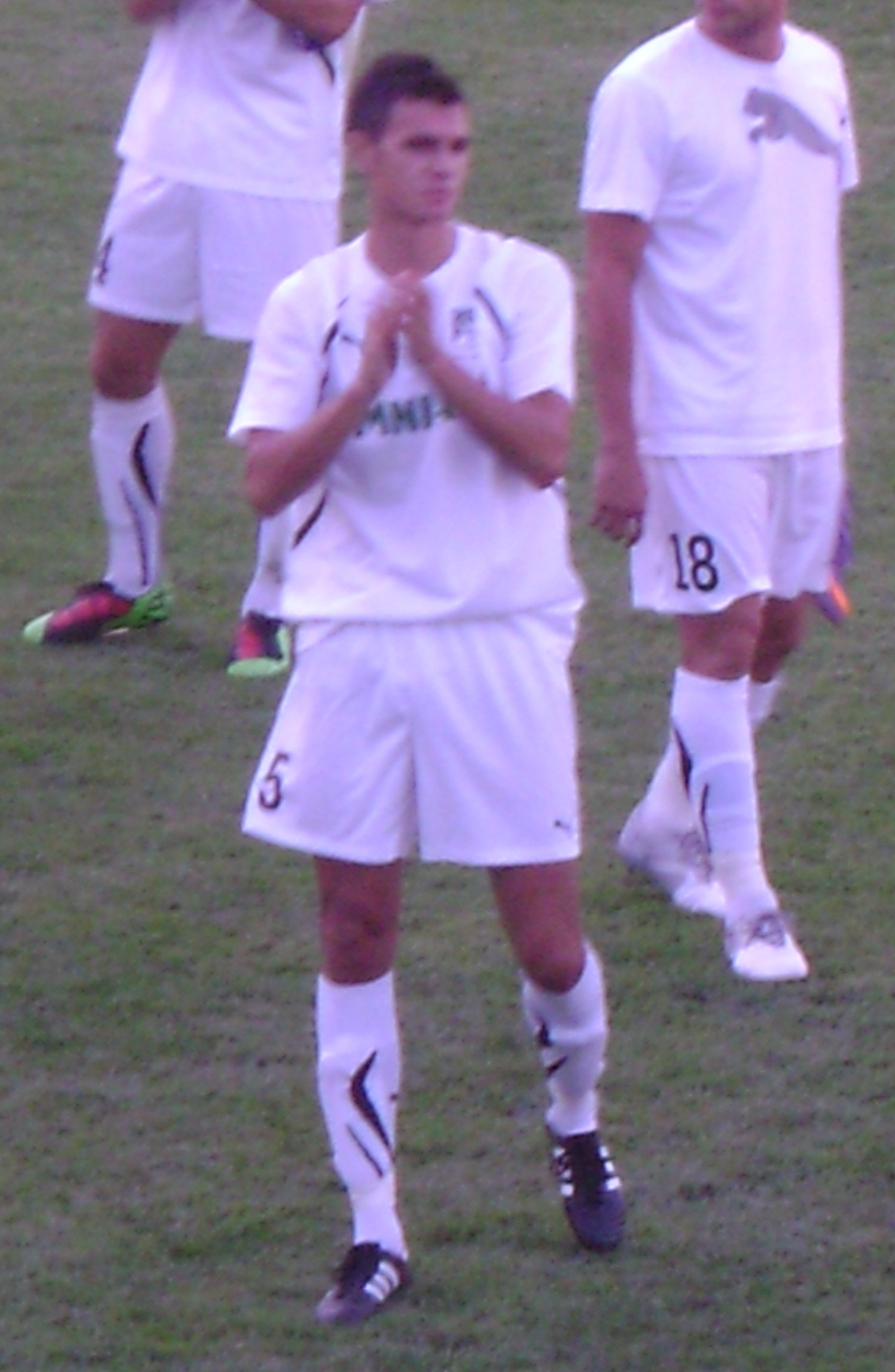 Romanian footballer, FC Sportul Studenţesc Bucureşti defender, Daniel Lung